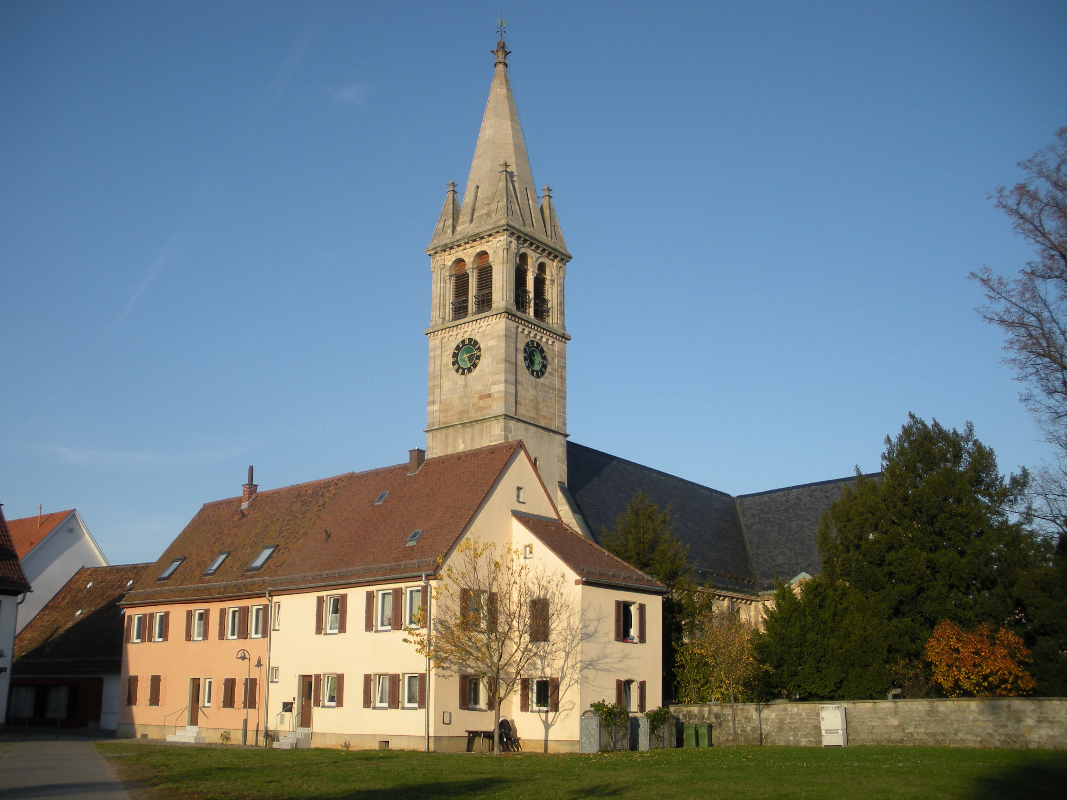 Protestant Church of Michael in Stuttgart-Degerloch